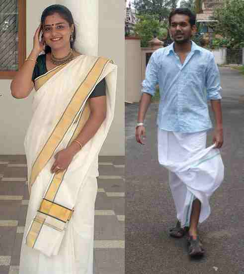 A Malayalee woman in a sari and a Malayalee man wearing a Mundu with a shirt. Traditional Kerala dress.